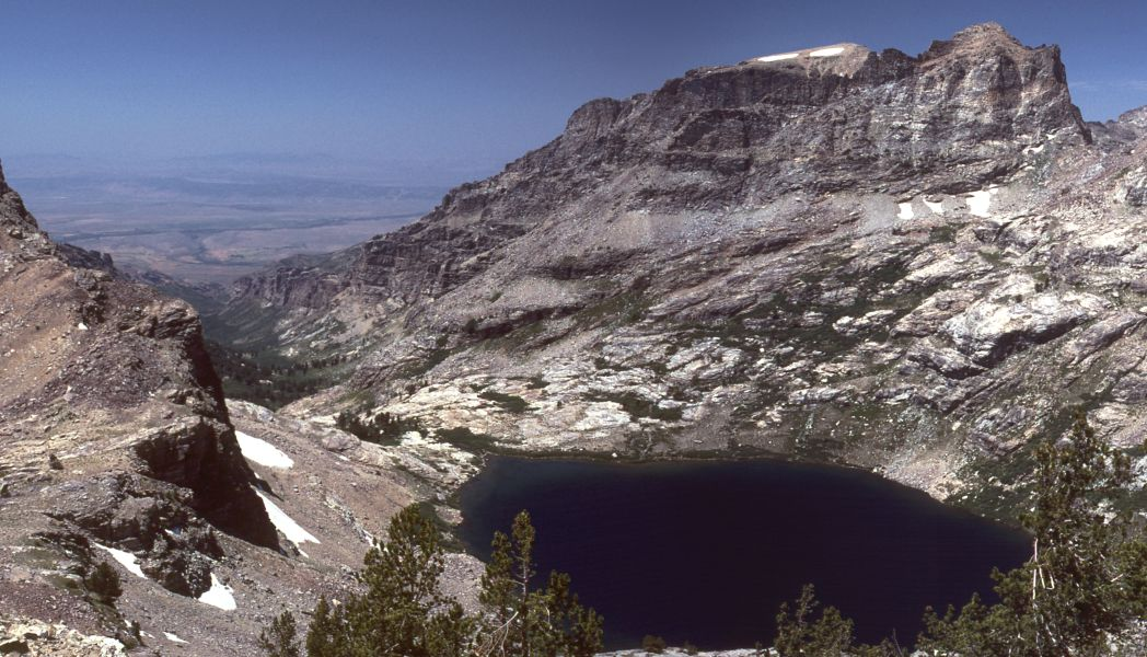 Echo Lake in the Ruby Mountains of Nevada, looking southwest. To the upper right is Mt. Silliman, and in the nearer distance is Echo Canyon. In the far distance is Huntington Valley.